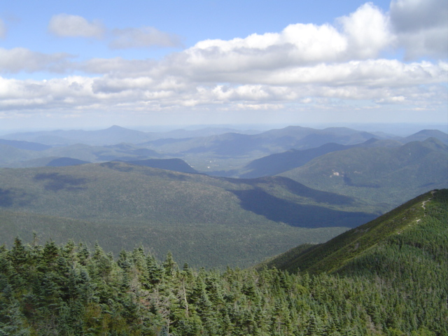 White Mountains, New Hampshire, USA